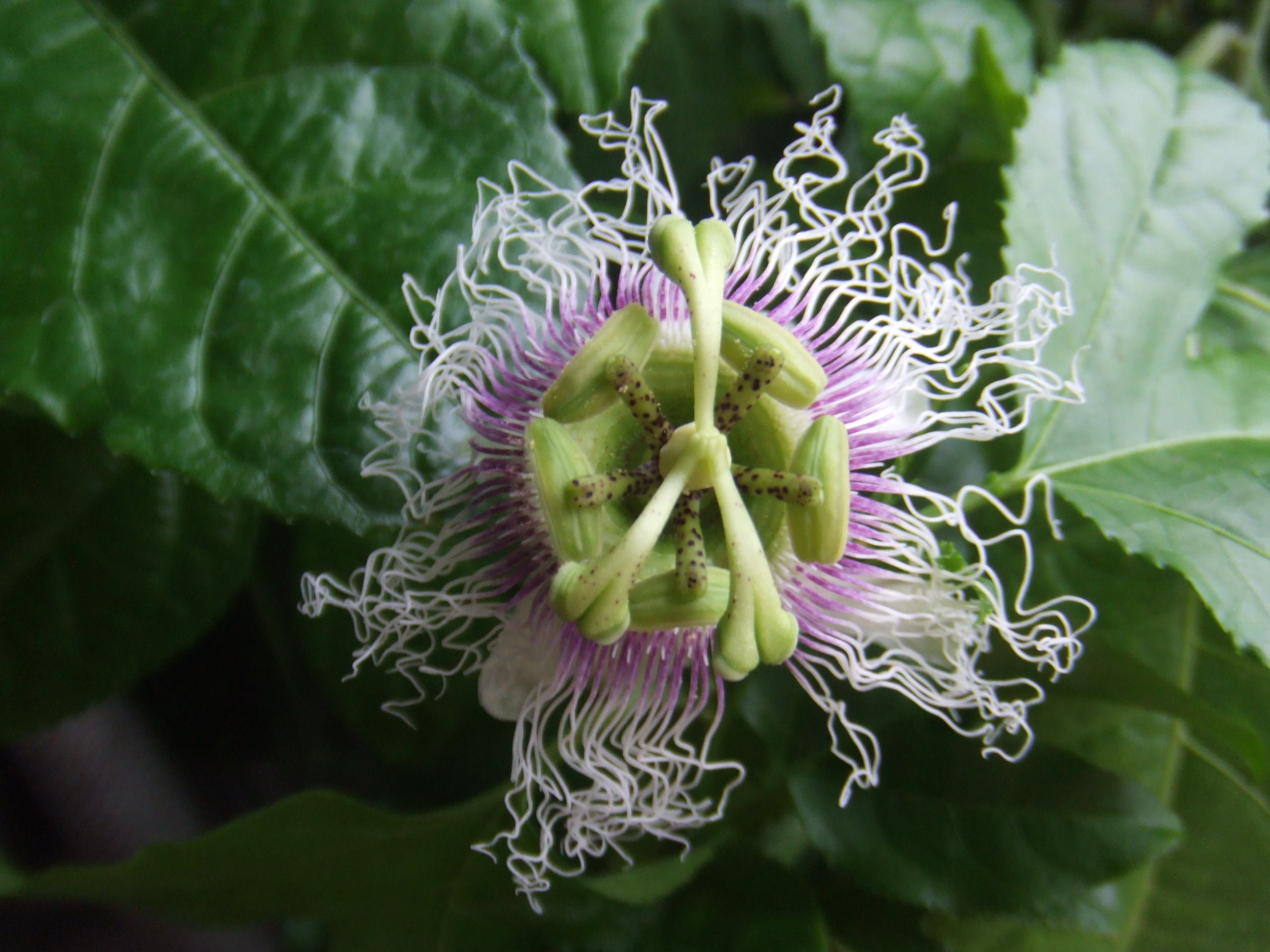 Passiflkora edulis forma edulis, own collection